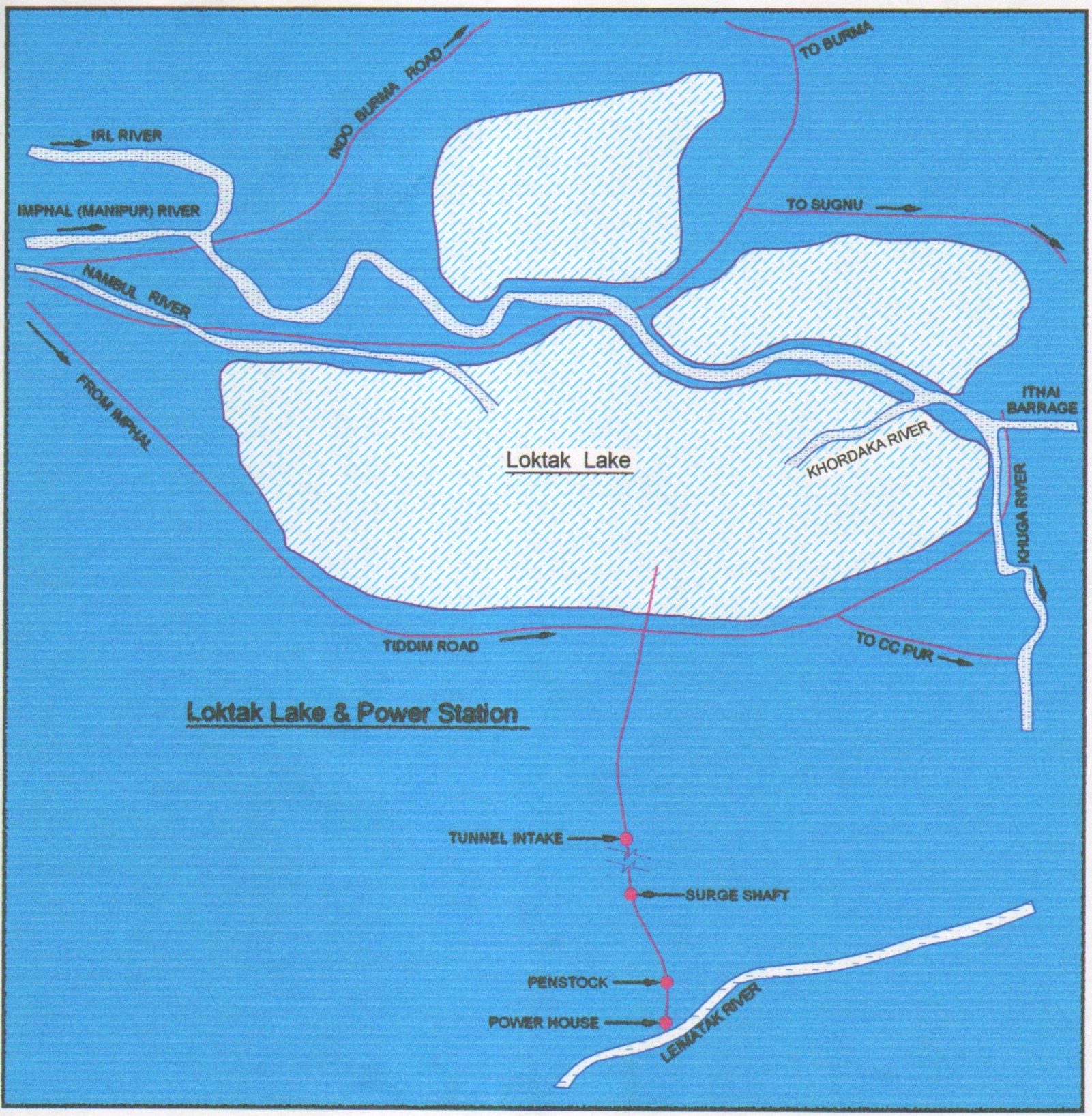 Loktak lake and Hydropower Project layout plan